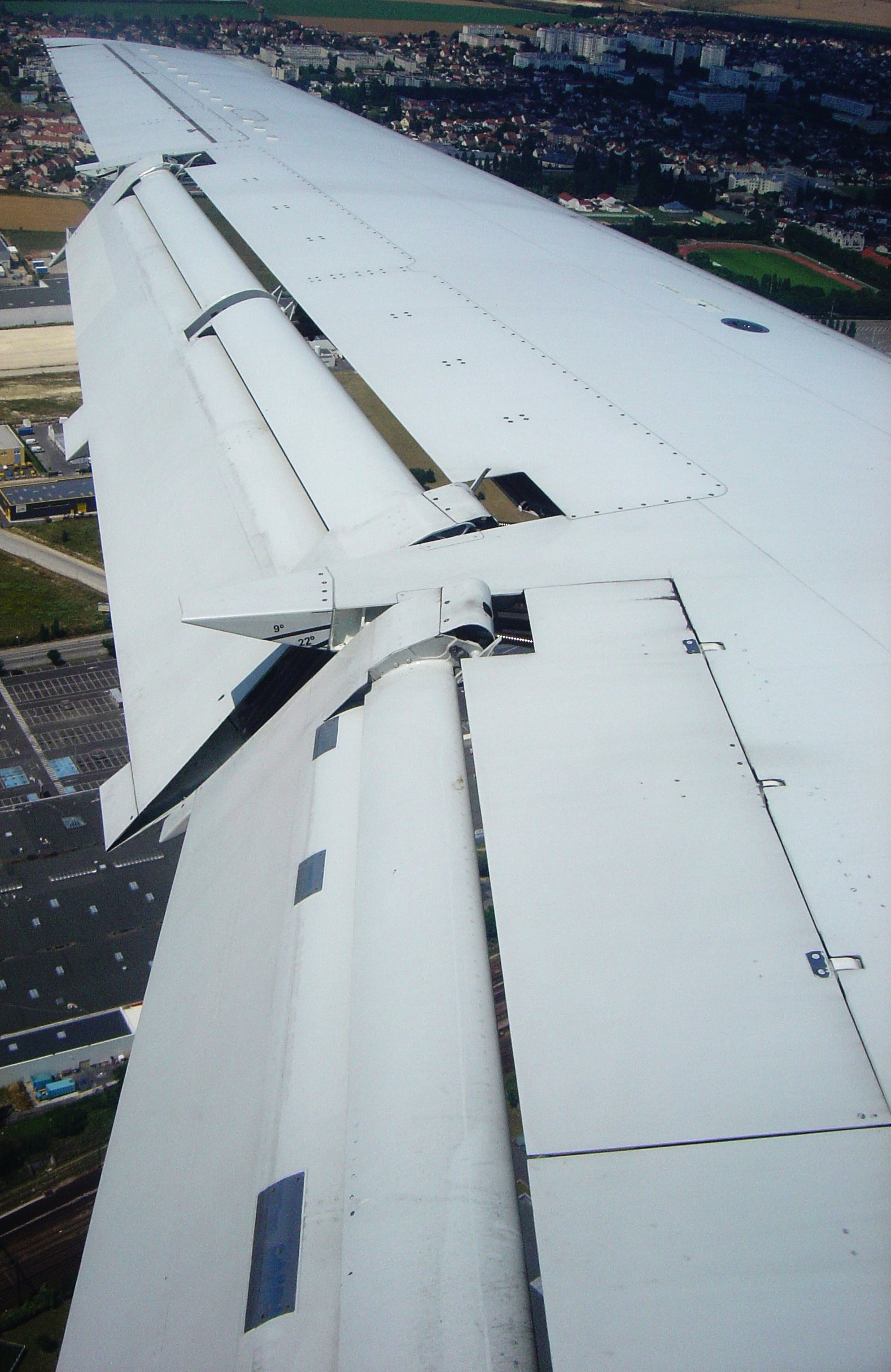 An aircraft wing (Embraer 145?), full flaps